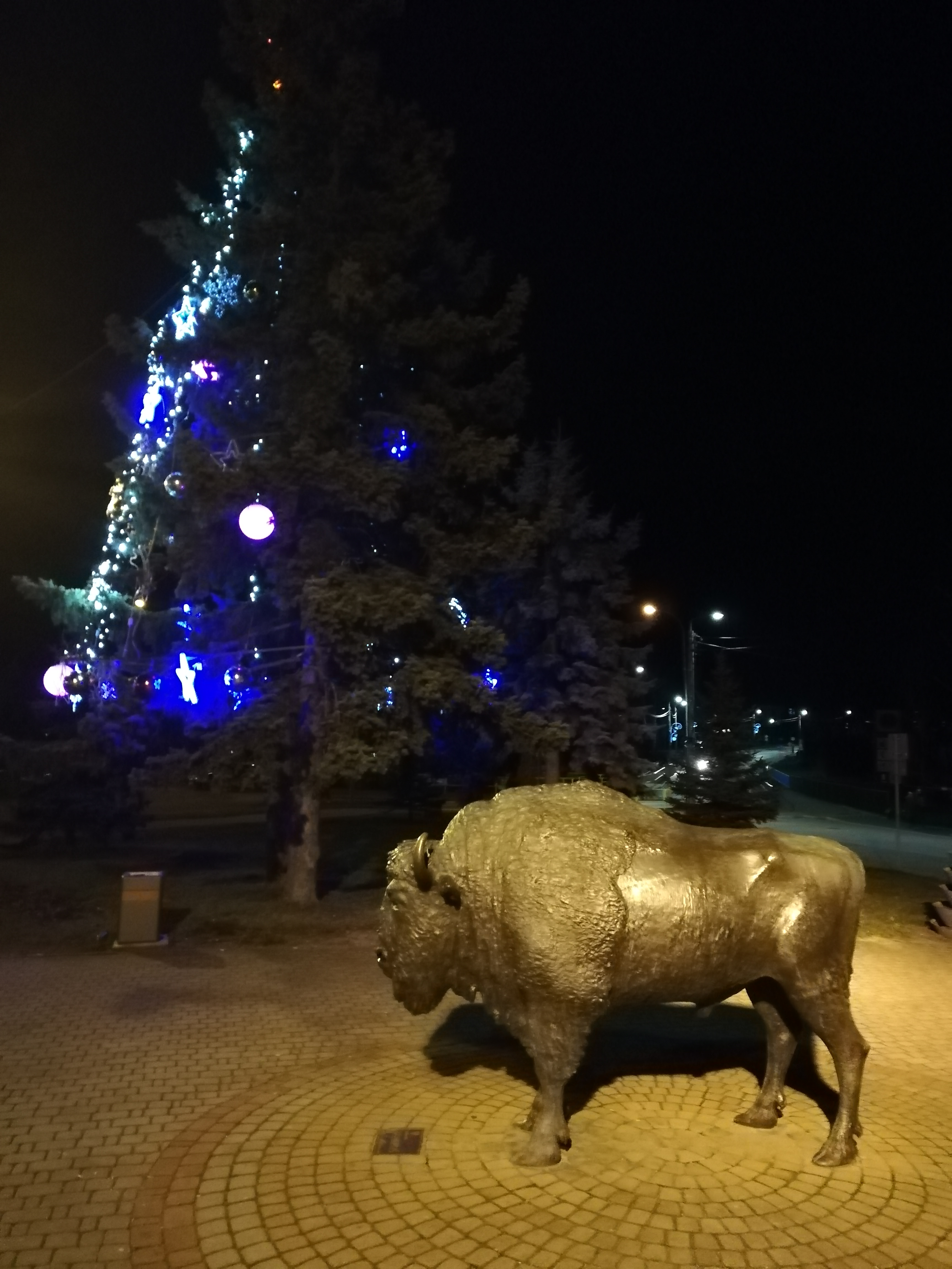 European bizon monument in Zambrów